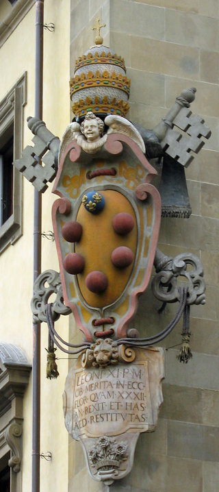 The coat of arms of Pope Leo XI (1605-1605) who was born Alessandro Ottaviano de' Medici, on a building in Florence, Italy